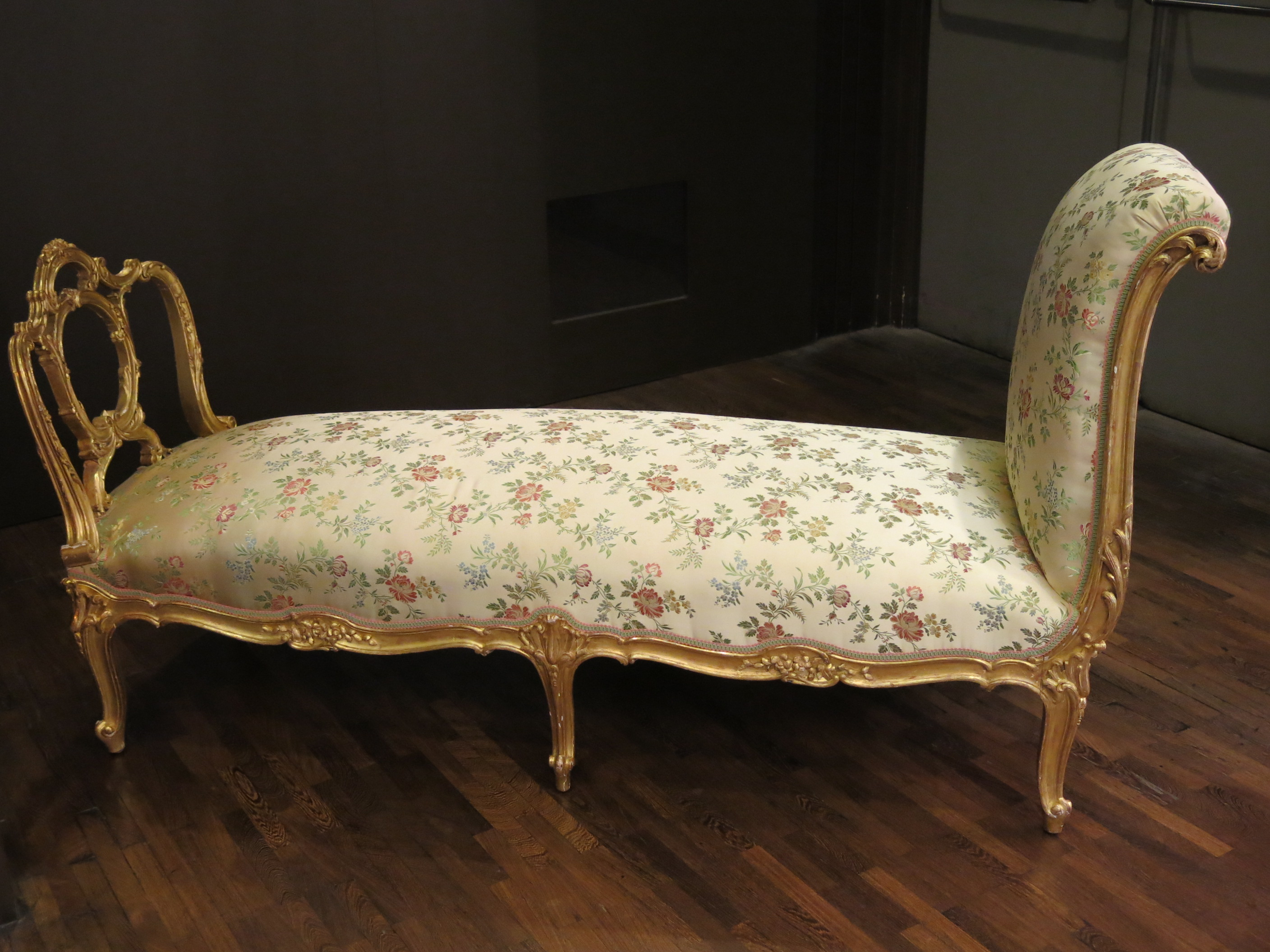 Furniture of type Récamier for sale in the Louvre des Antiquaires (Paris, France).